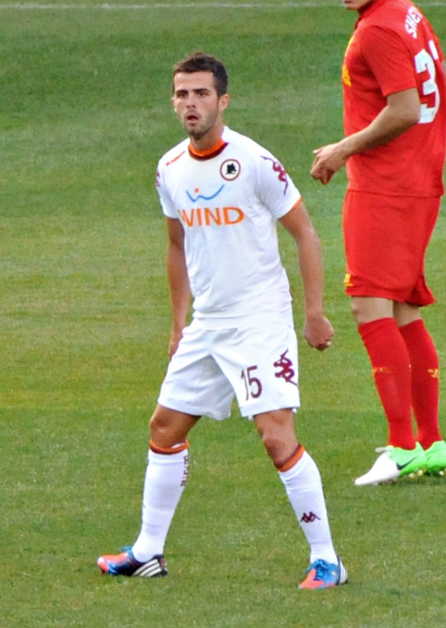 LFC vs Roma @ Fenway Park (Boston, Massachusetts)